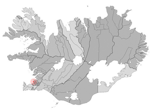 Based on Municipalities of Iceland.png.